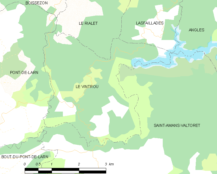 Map commune FR insee code 81321.png - Le Vintrou